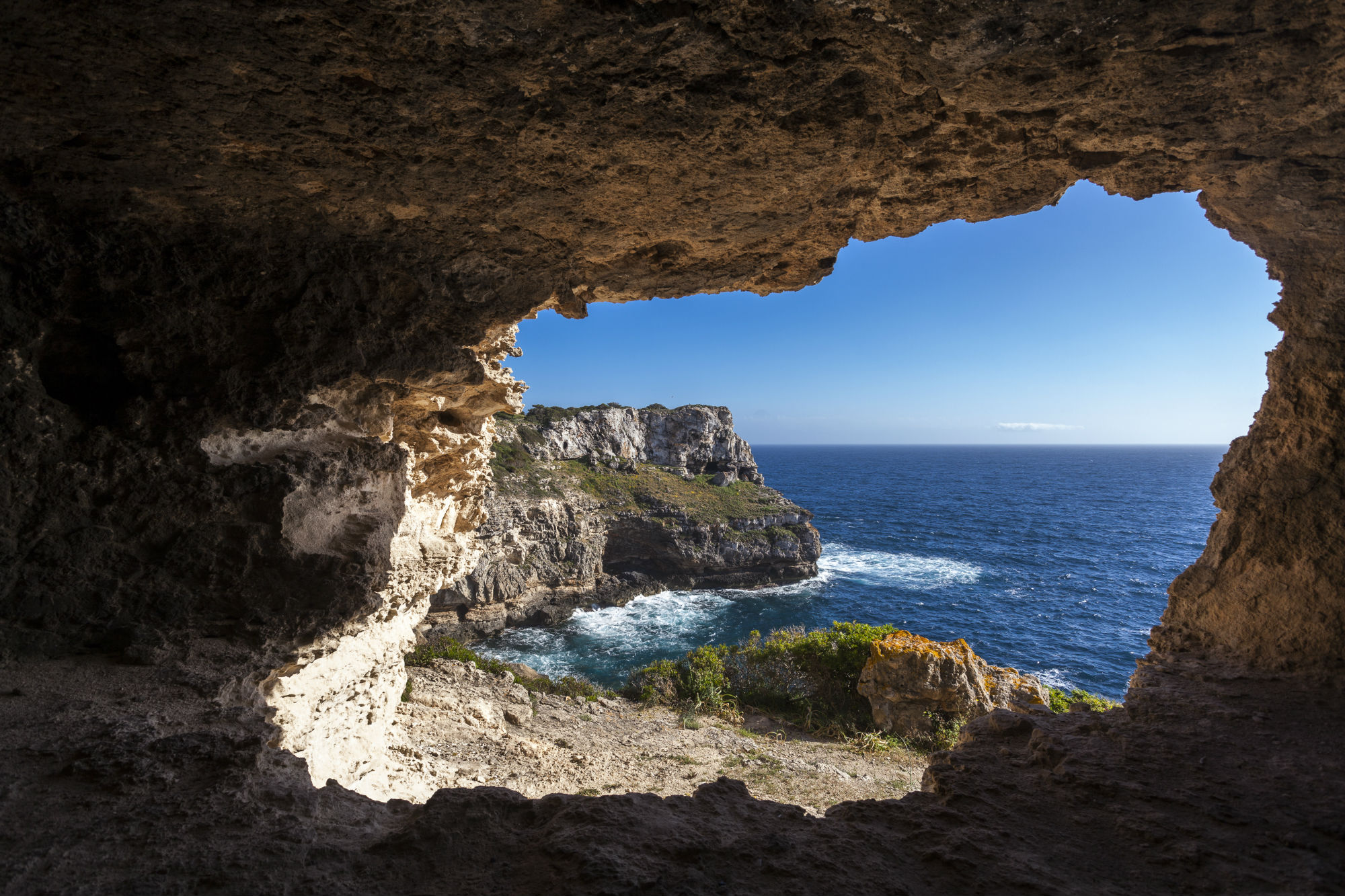 View from one of the hypogea.